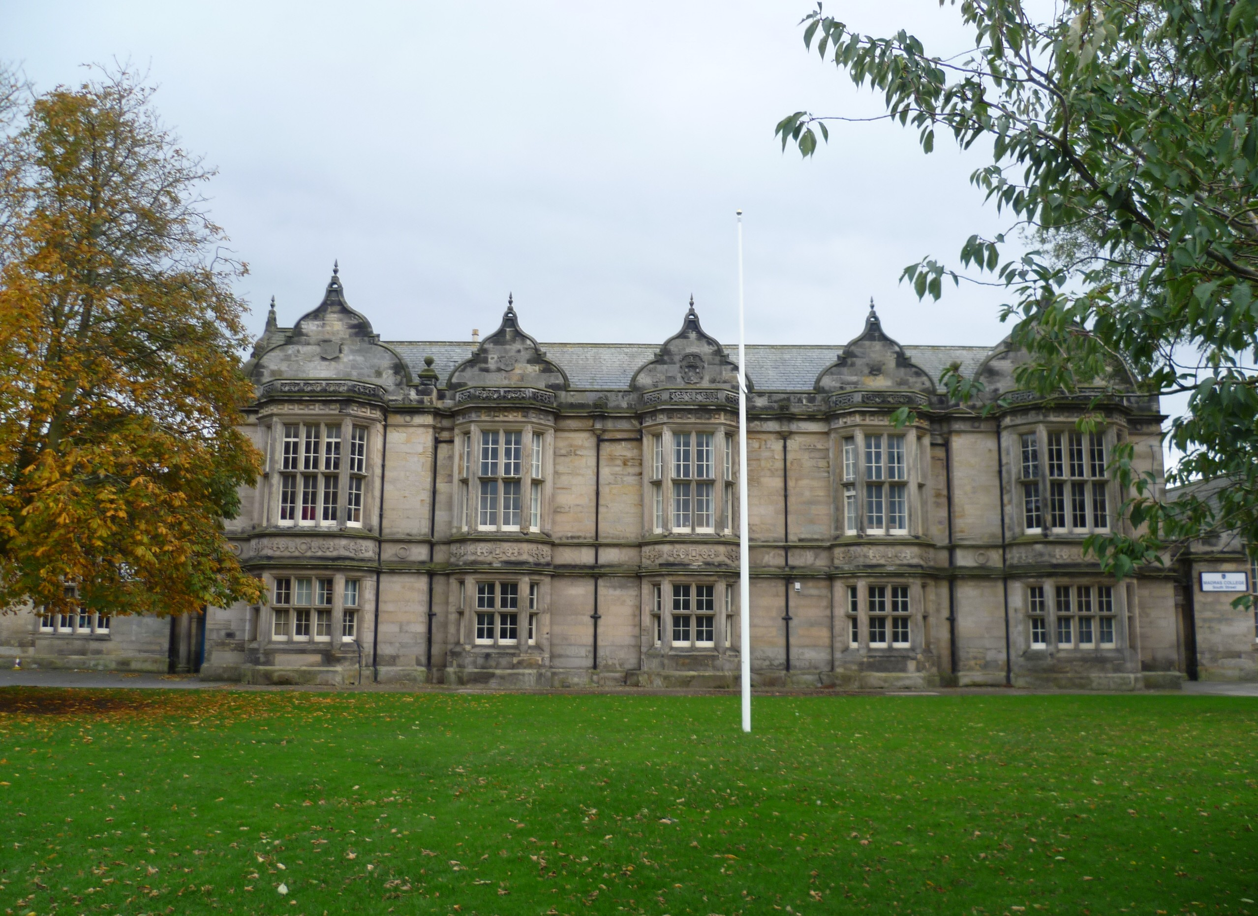 Madras College, South Street, St. Andrews Fife